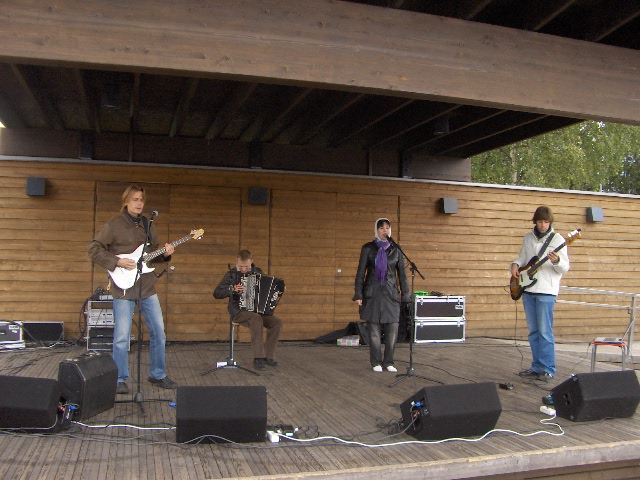 Mari rock band Pairem, Vocalist Elvira Kuray sings in Mari Language. Tyrnävä market free concert